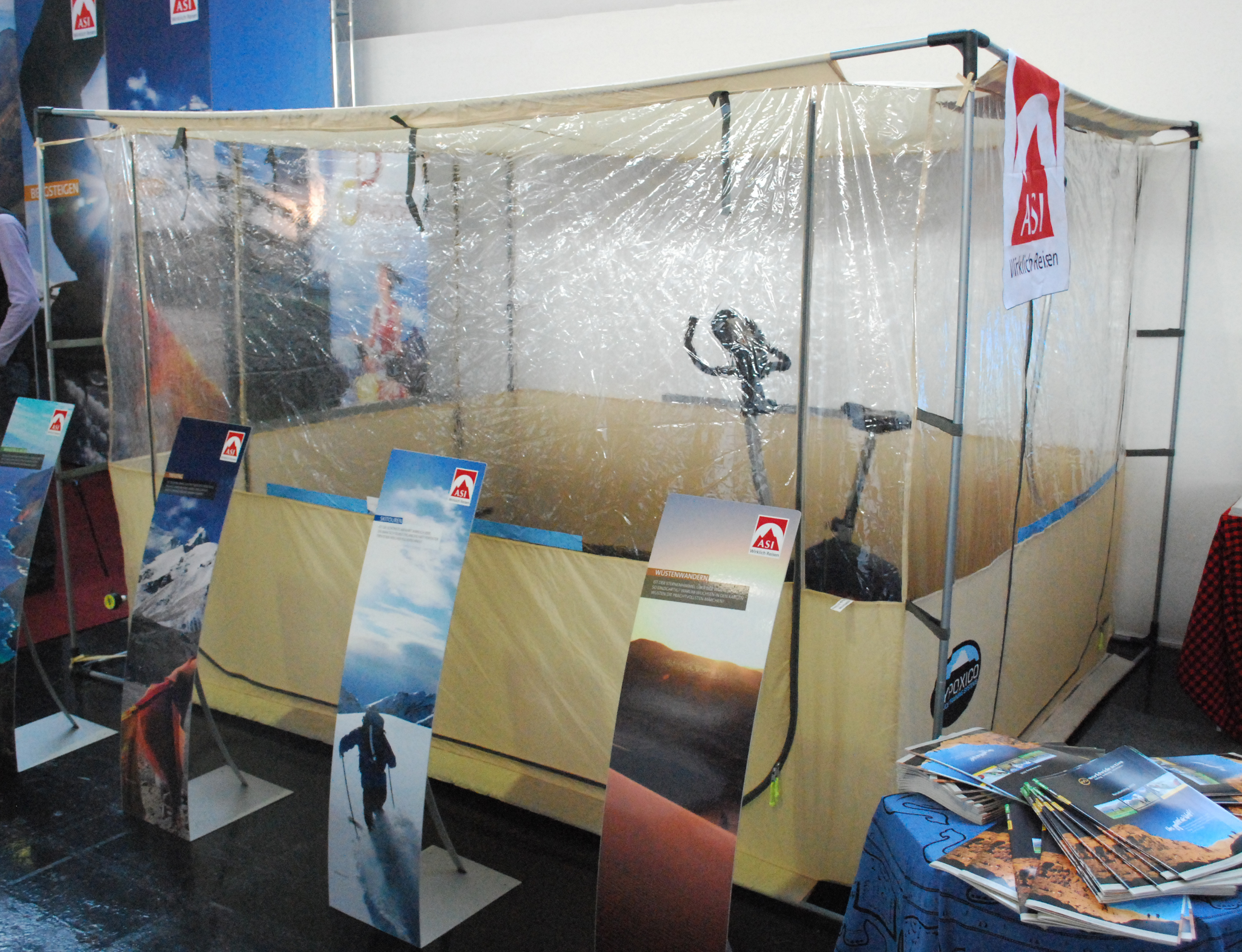 altitude training